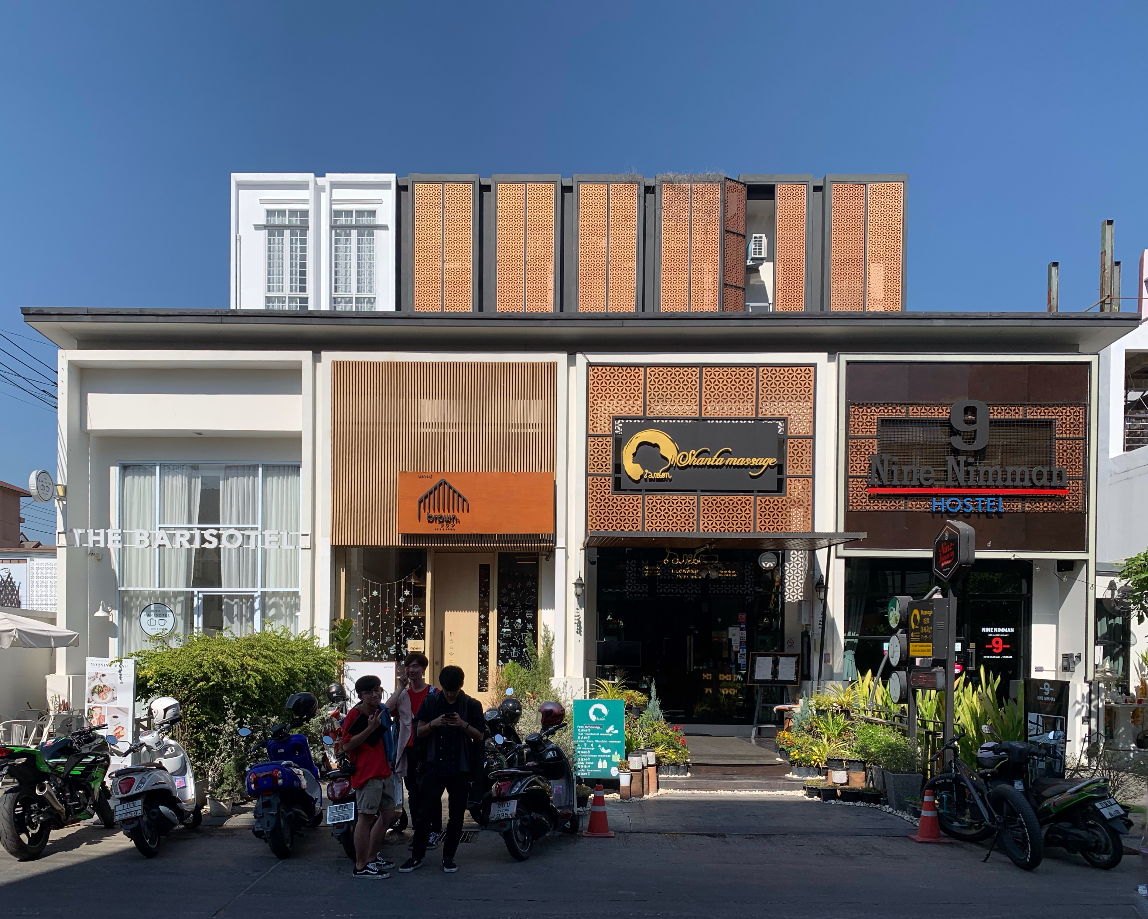 Shops on Nimmanhemin Road